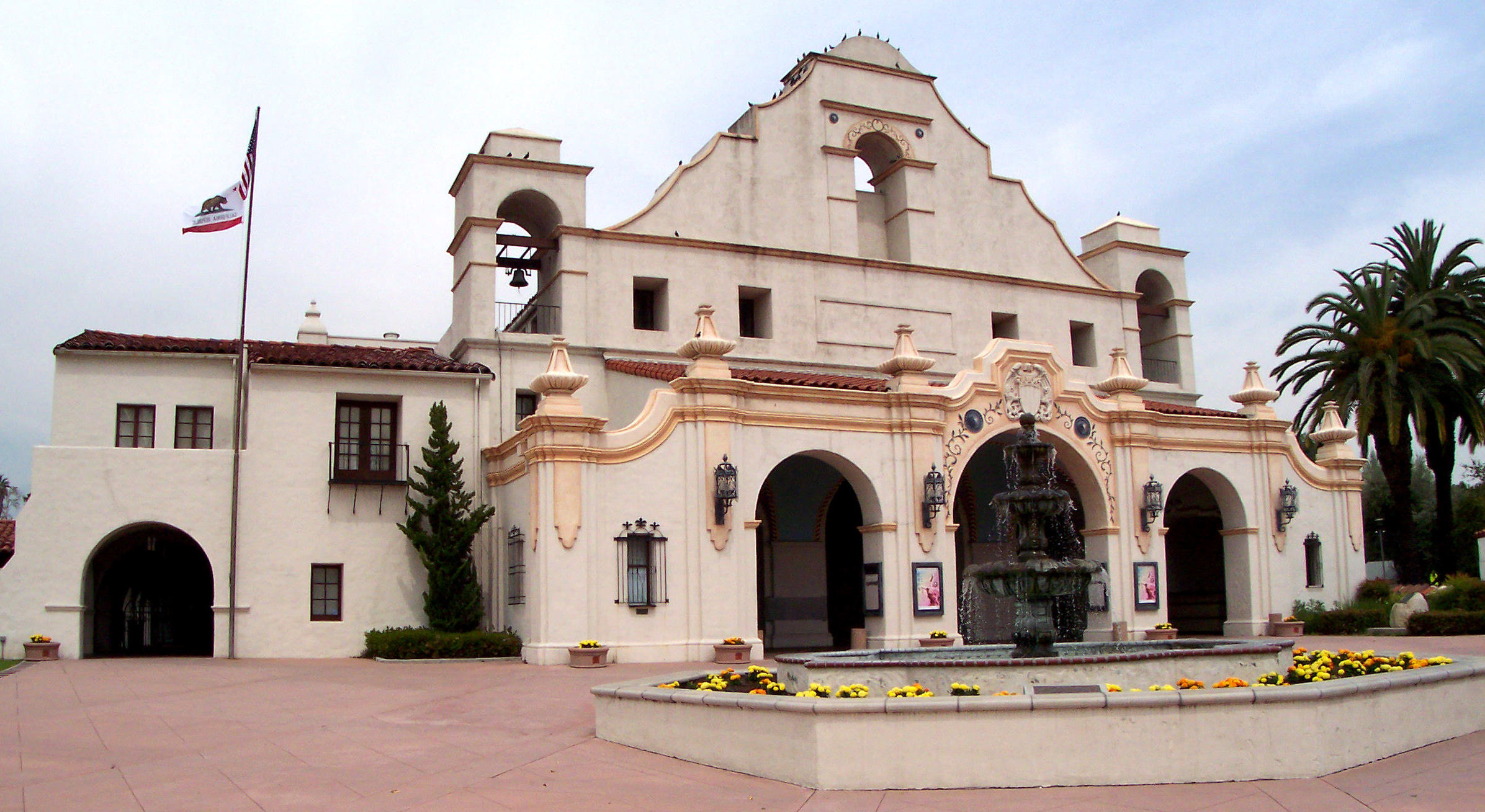 San Gabriel Mission Playhouse an example of Mission Revival Style architecture